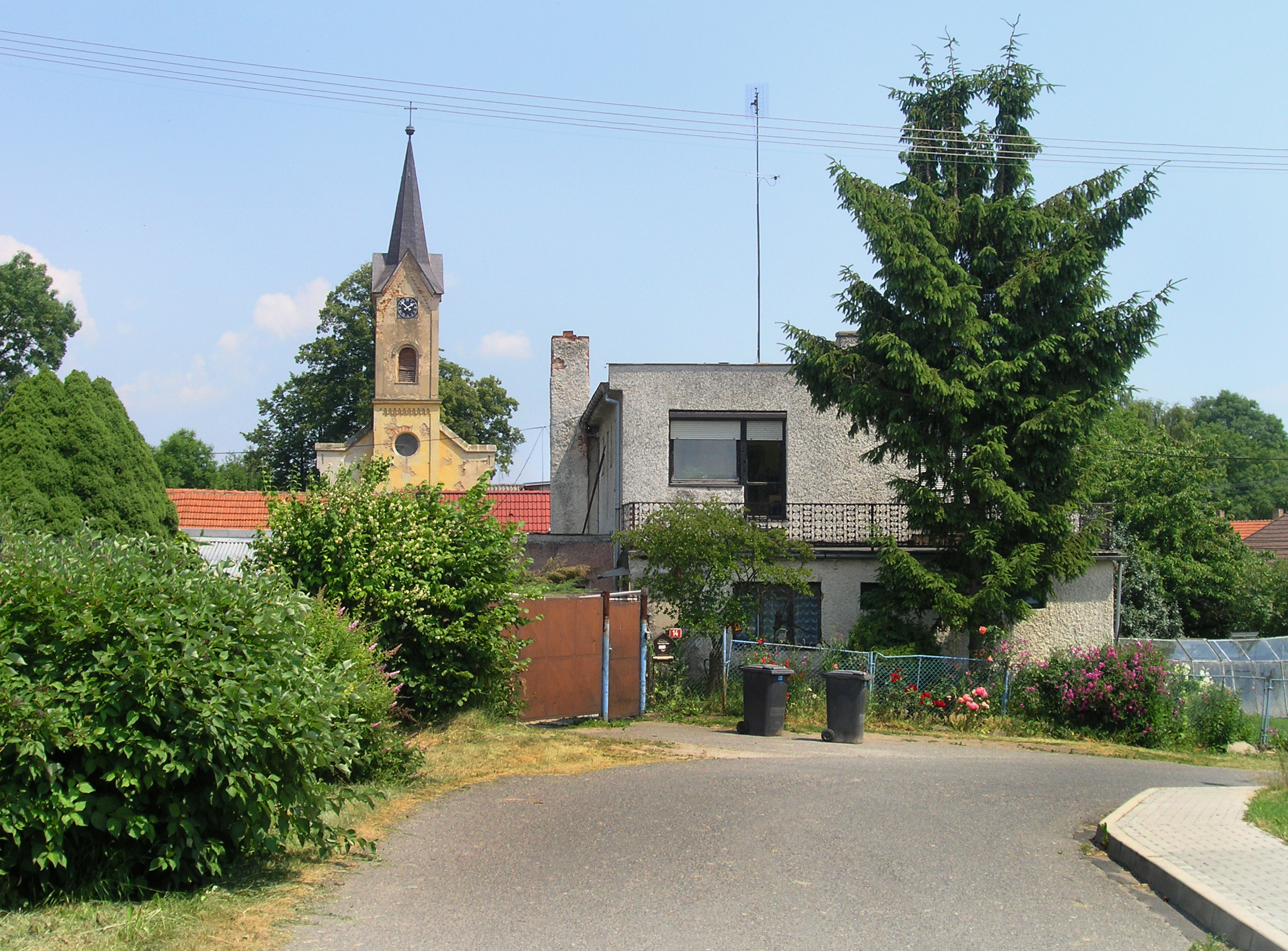 West part of Malotice, Czech Republic